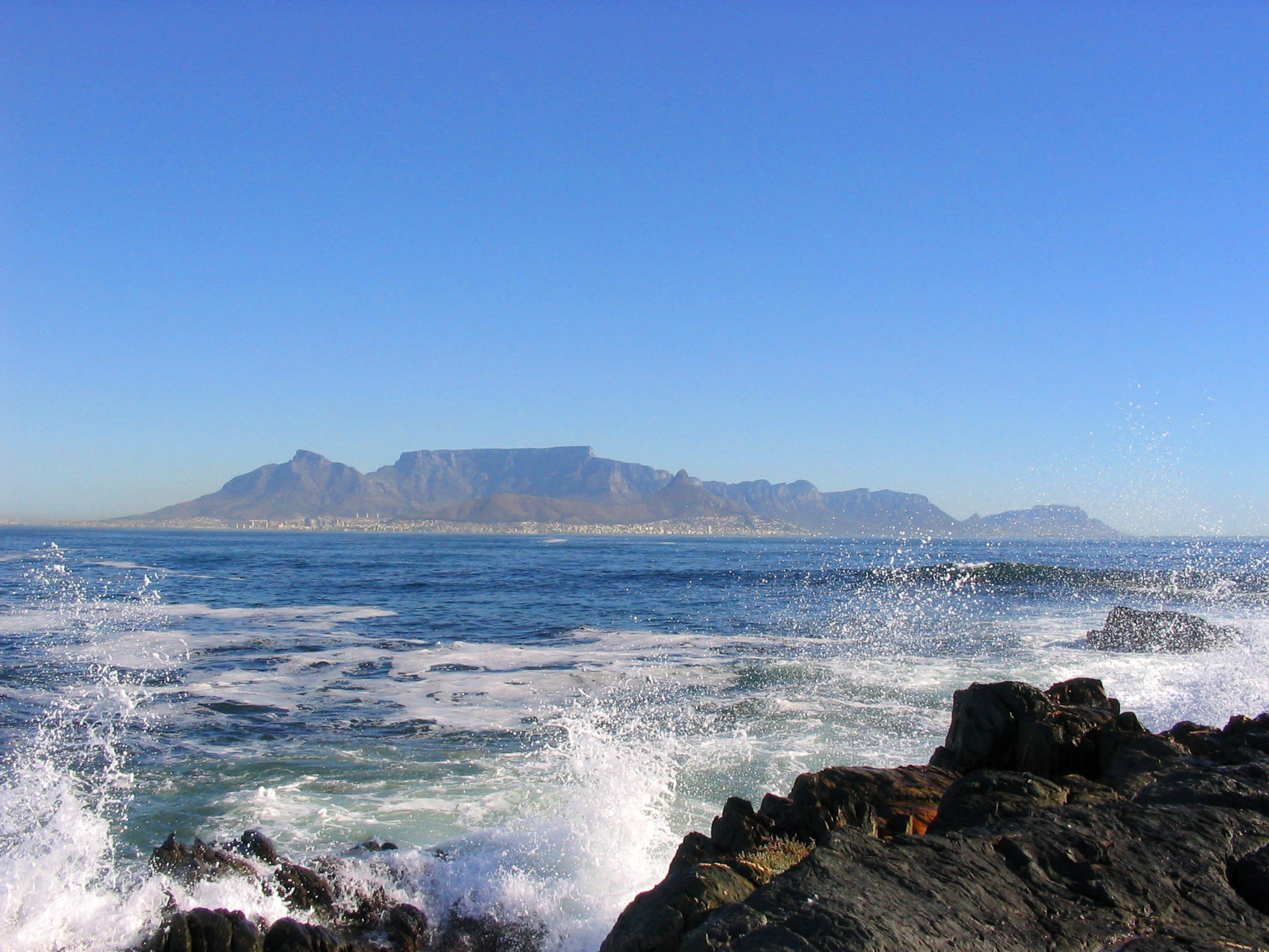 View over Cape town from Robben Island.